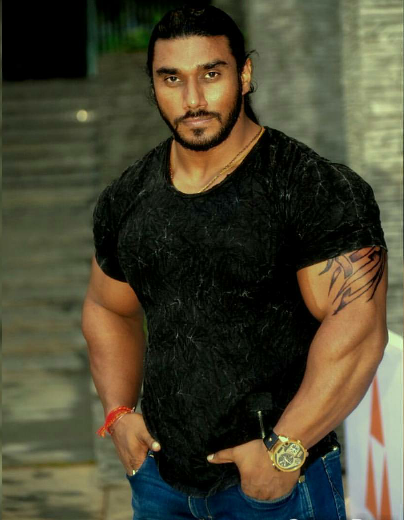 Sangram Chougule official page